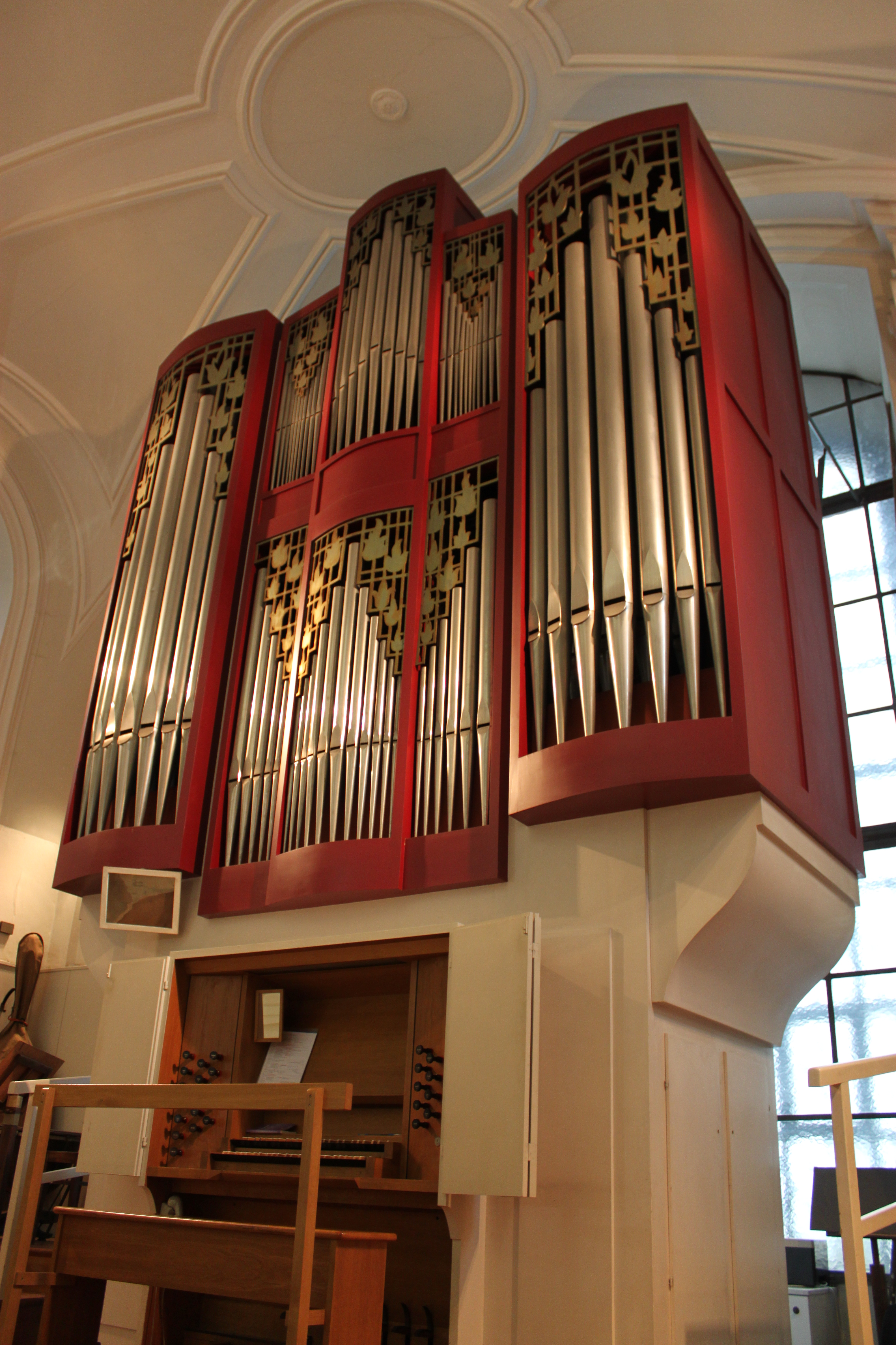 Organ of St. Leopold's parish church, Vienna, built by Gregor Hradetzky